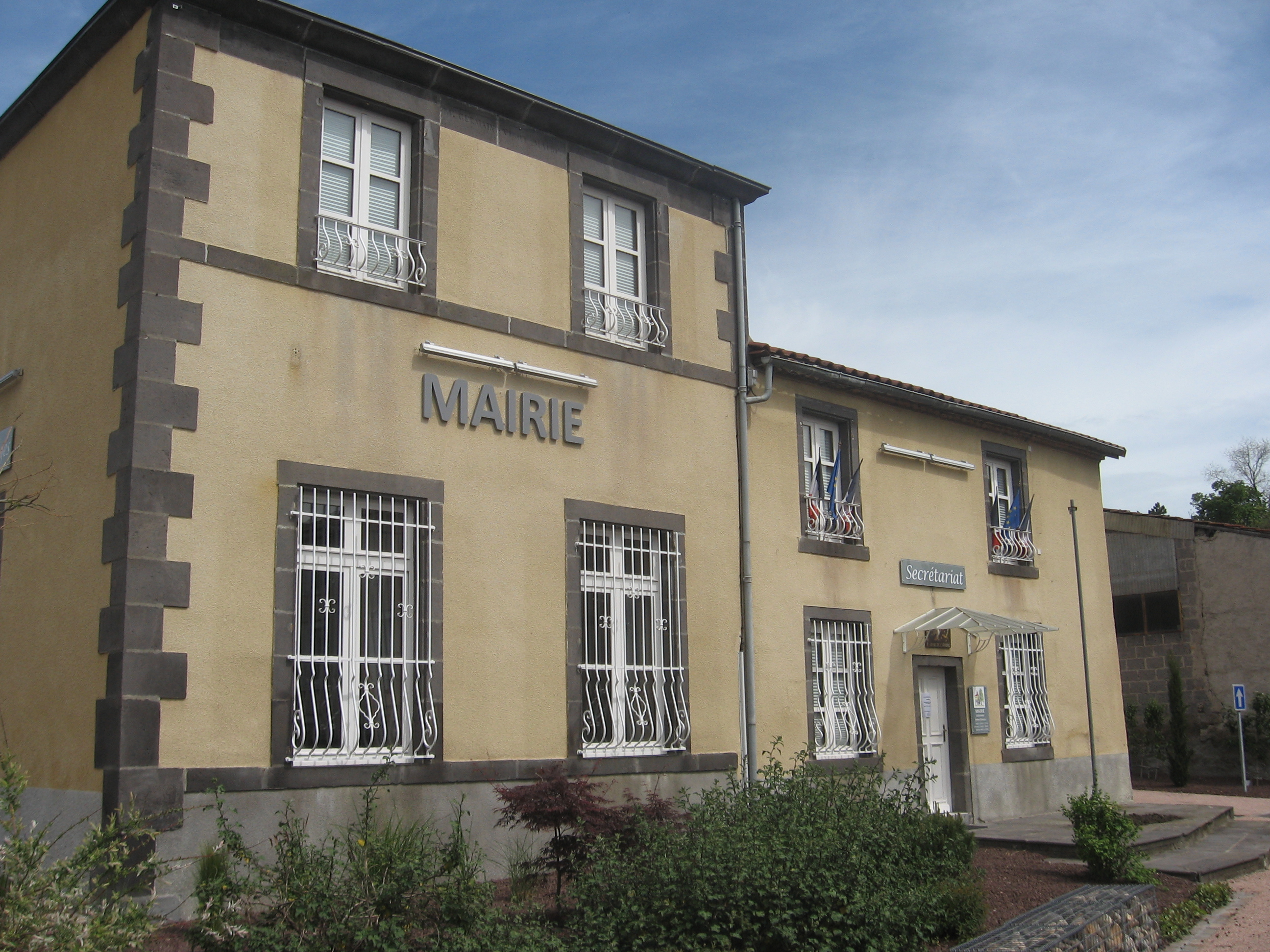 MAIRIE